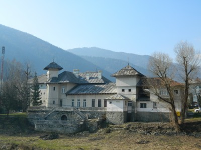 Bicaz throughput , even for a few hours , it is impossible not to your attention an old building , it seems quiet , but in which destinies are planning a city. It is the City of Bicaz, a place where the dreamers can return rather easily in the past. Especially as property, built in 1909 , was part of the Royal Crown , it was built during the reign of Carol I. Originally , the house was designed for the royal family for holidays . Since 1912 , when the works were completed , the locals had hoped that they will intalini the king on their lands , but the "miracle " happened only in July 1918. Then Ferdinand government proposed to withdraw the whole family , the Queen Mary Ileana princesses , Marioara , Elizabeth and prince Nicholas, the Bicaz. From the first day of stay , Queen Mary , impressed by the idyllic area of Bistrita valley , along with several ladies of the suite , engaged in charity , to help the needy peasants . It seems that the destiny of this house was from the beginning that the last hope in situations. It was "hosts " hospitable and Ignacy Moscicky , President of Poland ( 1926-1939 ) . Forced by the harsh circumstances , in 1939 , between September 19 and November 4, the Polish president to withdraw the royal house of Bicaz. Hosting is today remembered by a plaque placed on the facade . Year 1944 brought change. With the departure of King Michael 's abdication in the country, all property belonging to the Crown took possession the domain. Romanian state. Same fate had and house Bicaz. In 1960, when the city was declared Bicazul returned , even partially , the level of old , became the current headquarters of City Hall